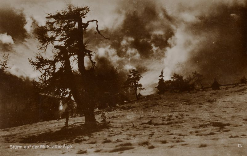 Thunderstrom on the Millstätter Alpe / Carinthia / Austria / Central Europe.